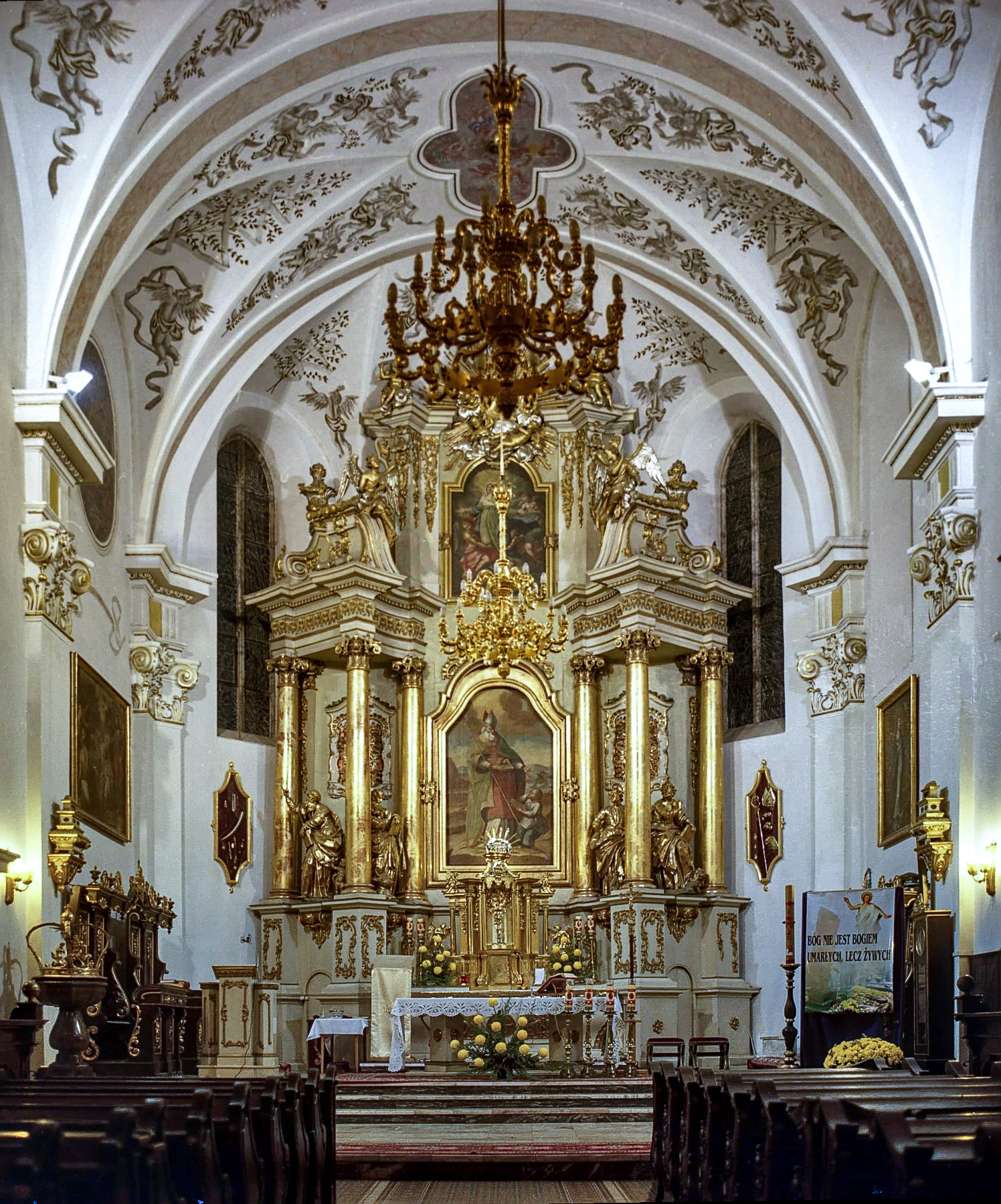 The main altar in Bochnia's basilica.